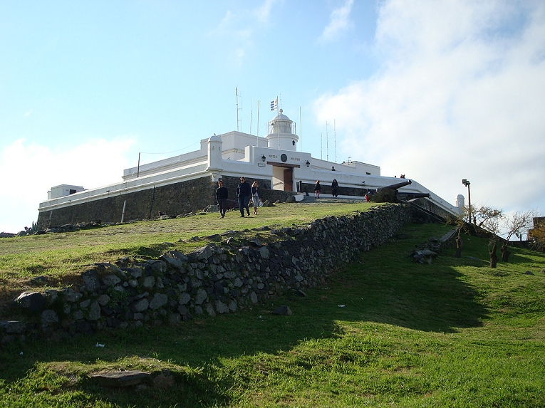 The fortress on the Cerro de Montevideo, Uruguay.